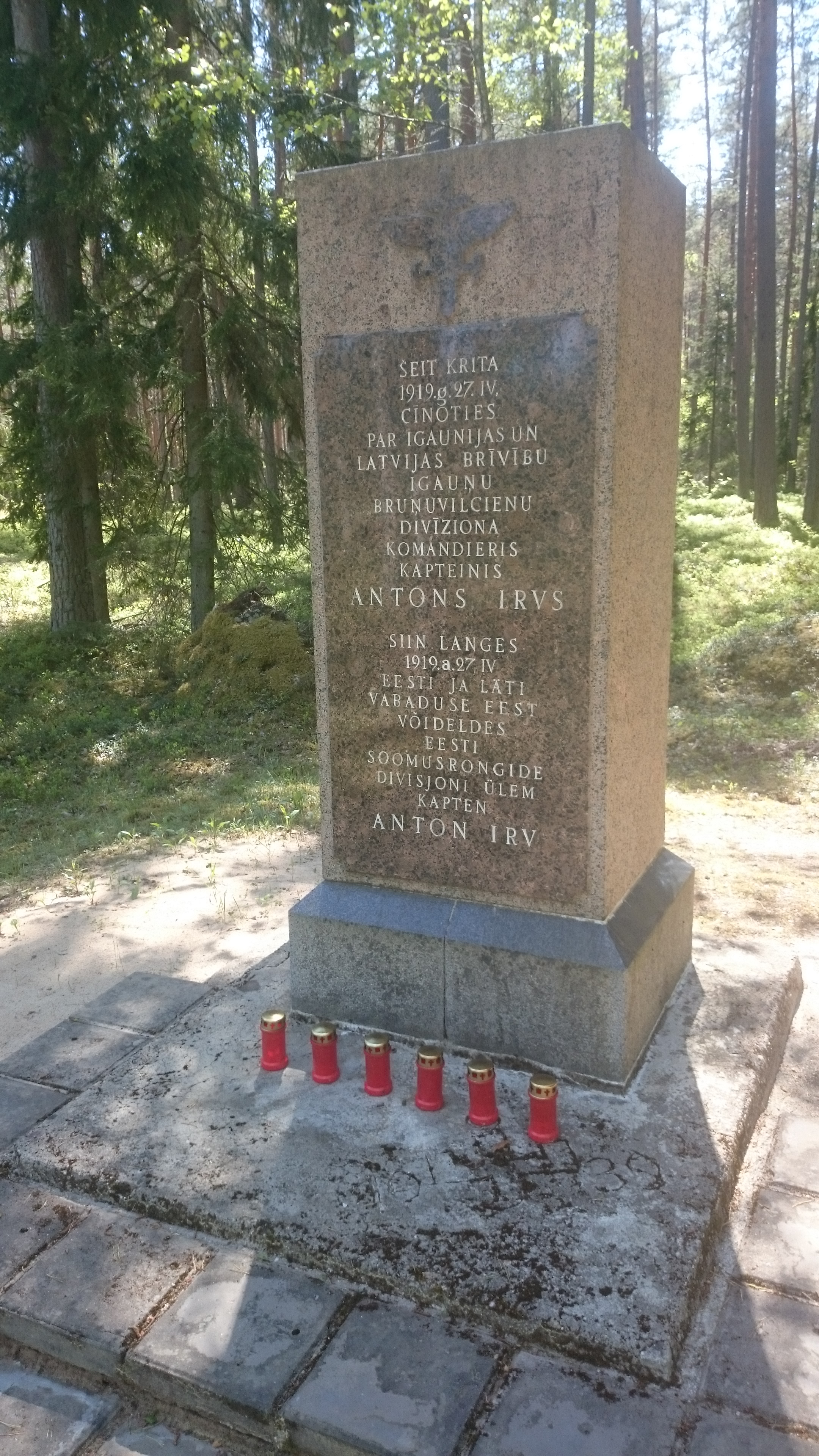 Monument for Anton Irv near Strenci, Latvia.